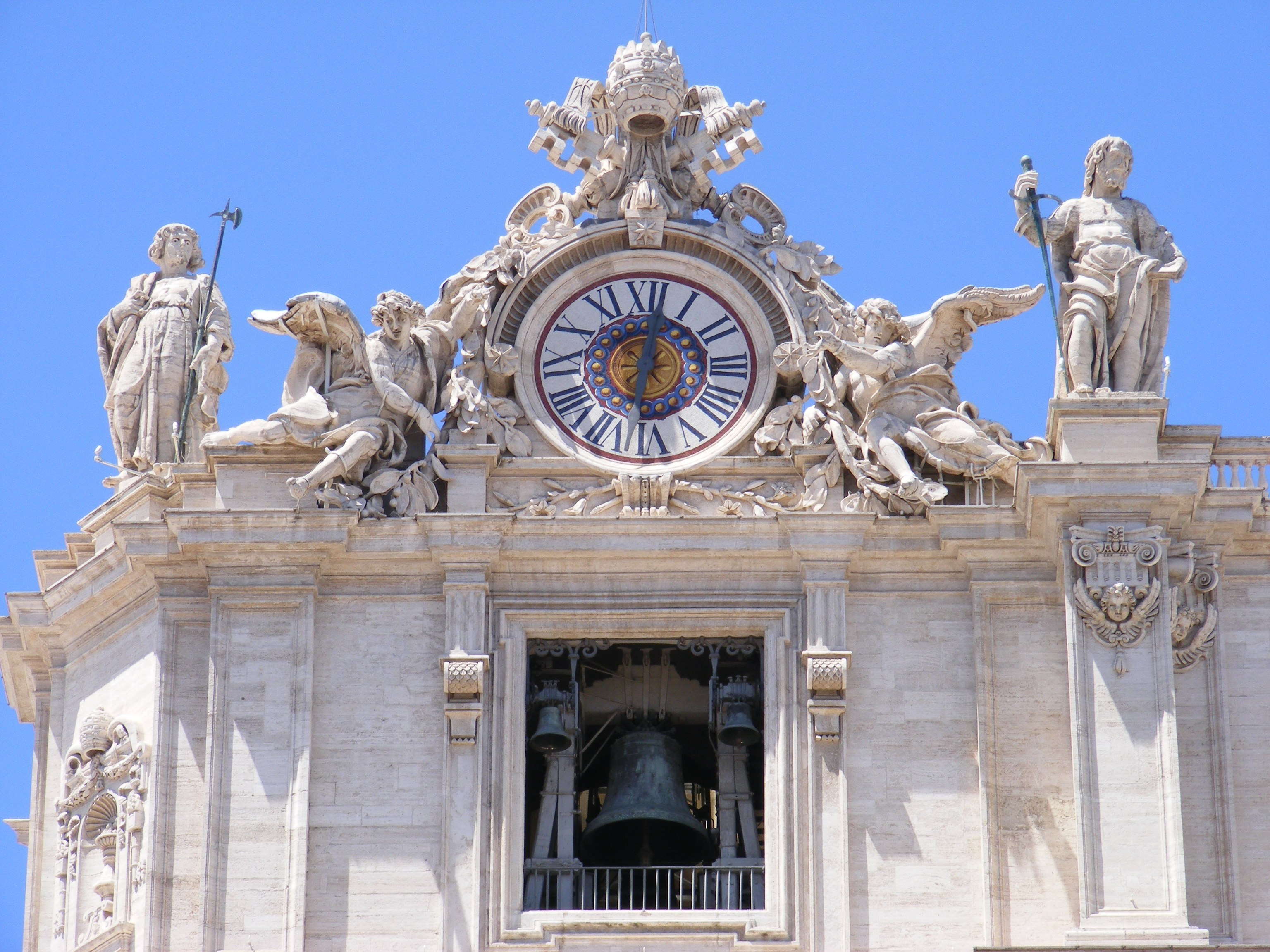 The top-left corner of St. Peter's Basilica's façade, the Vatican. The standing statues are Saints Thaddeus (left) & Matthew (right).